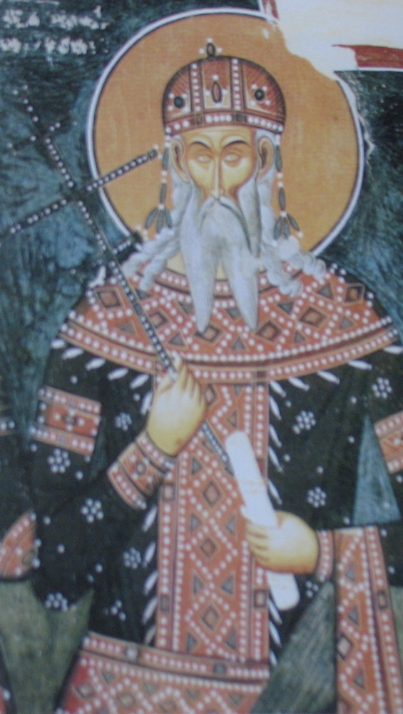 The fresco of king Vukašin Mrnjavčević, Psača monastery, Republic of Macedonia